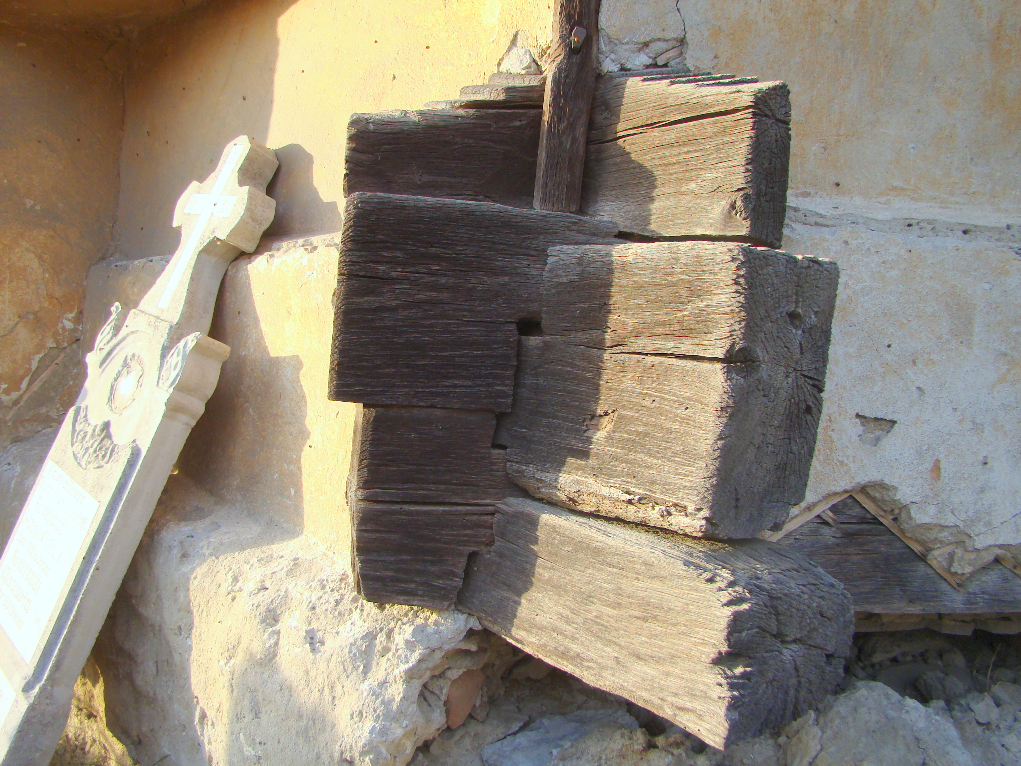 Wooden church in Plopșoru, Gorj county, Romania